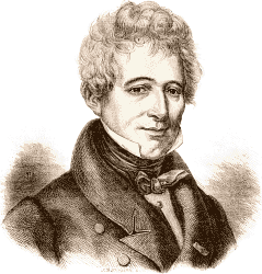 Portrait of Barthélemy de Lesseps. I have no proof but I assume this engraving was made for the official account published in 1790.